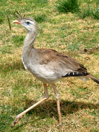 photo by Whaldener Endo date: 2006 Description: Seriema (Cariama cristata)